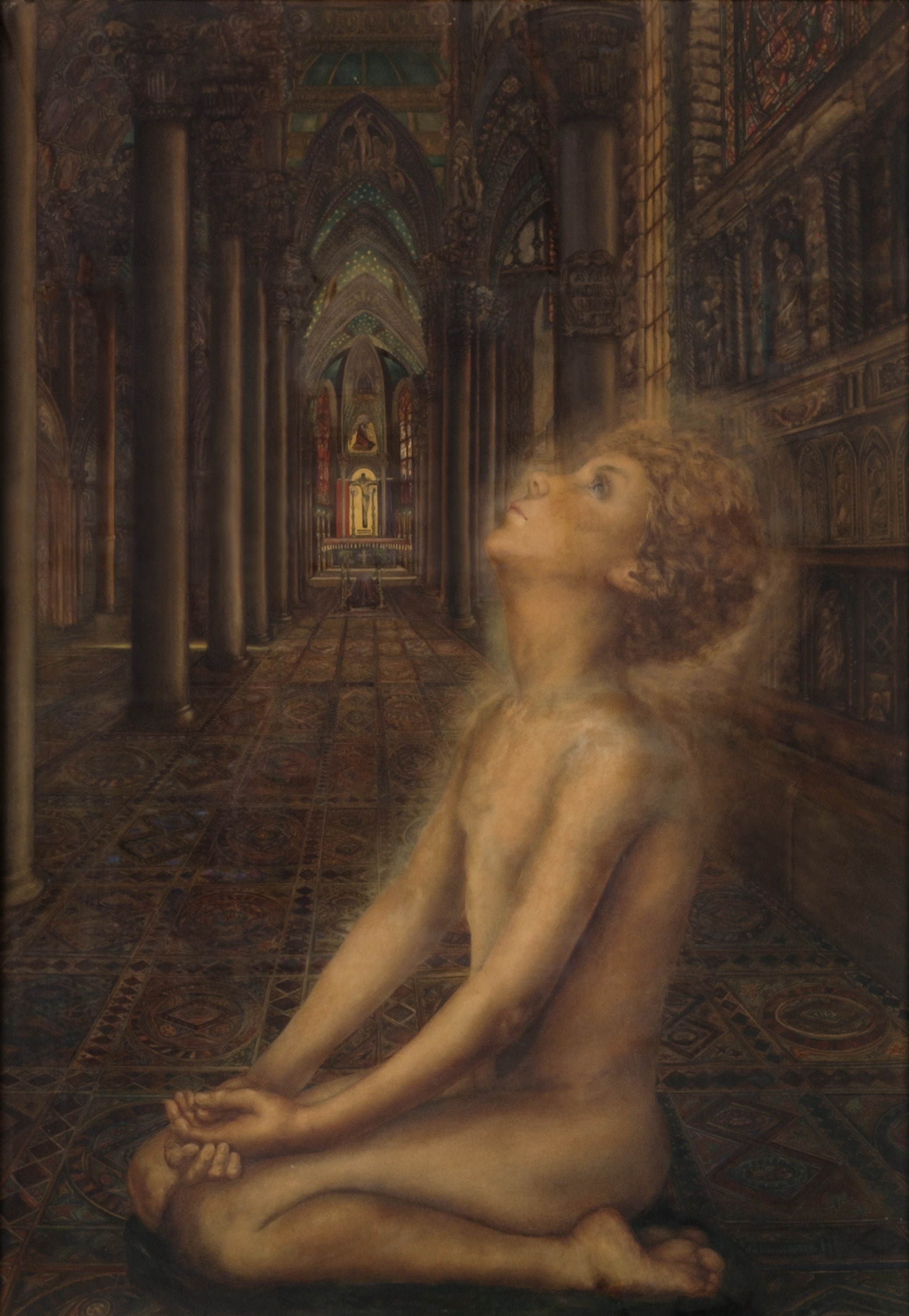 Child of the Ages by Da Loria Newman. Created ca. 1914, Pastel, watercolor, and gold paint on paperboard. Held in the collection of the Smithsonian American Art Museum